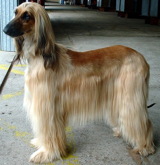 Afghan Hound Zushkhan Jodeci owned by Vannessa Small.